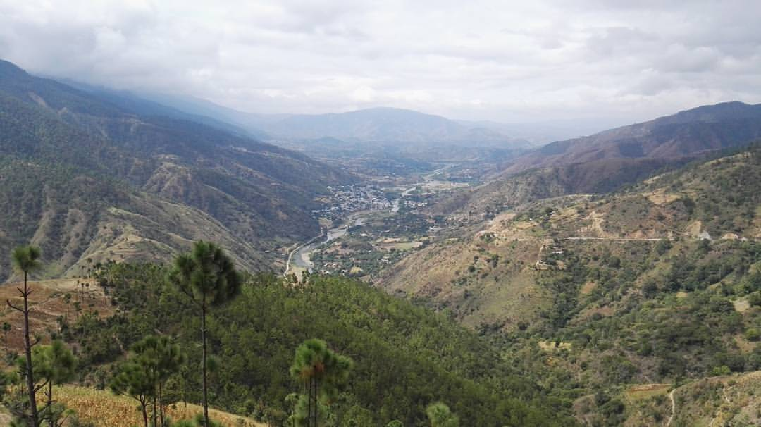 Sacapulas, Guatemala